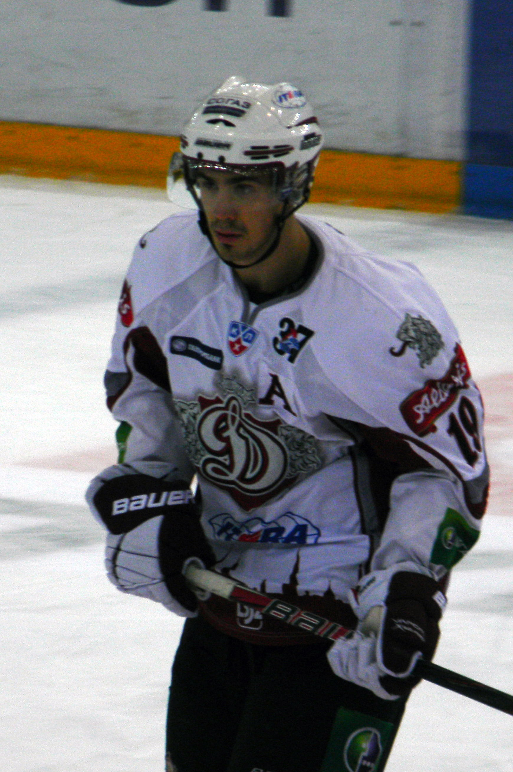 Miķelis Rēdlihs, a hockey player from Dinamo Riga